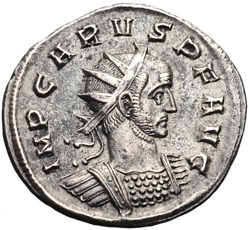 Carus Antoninianus